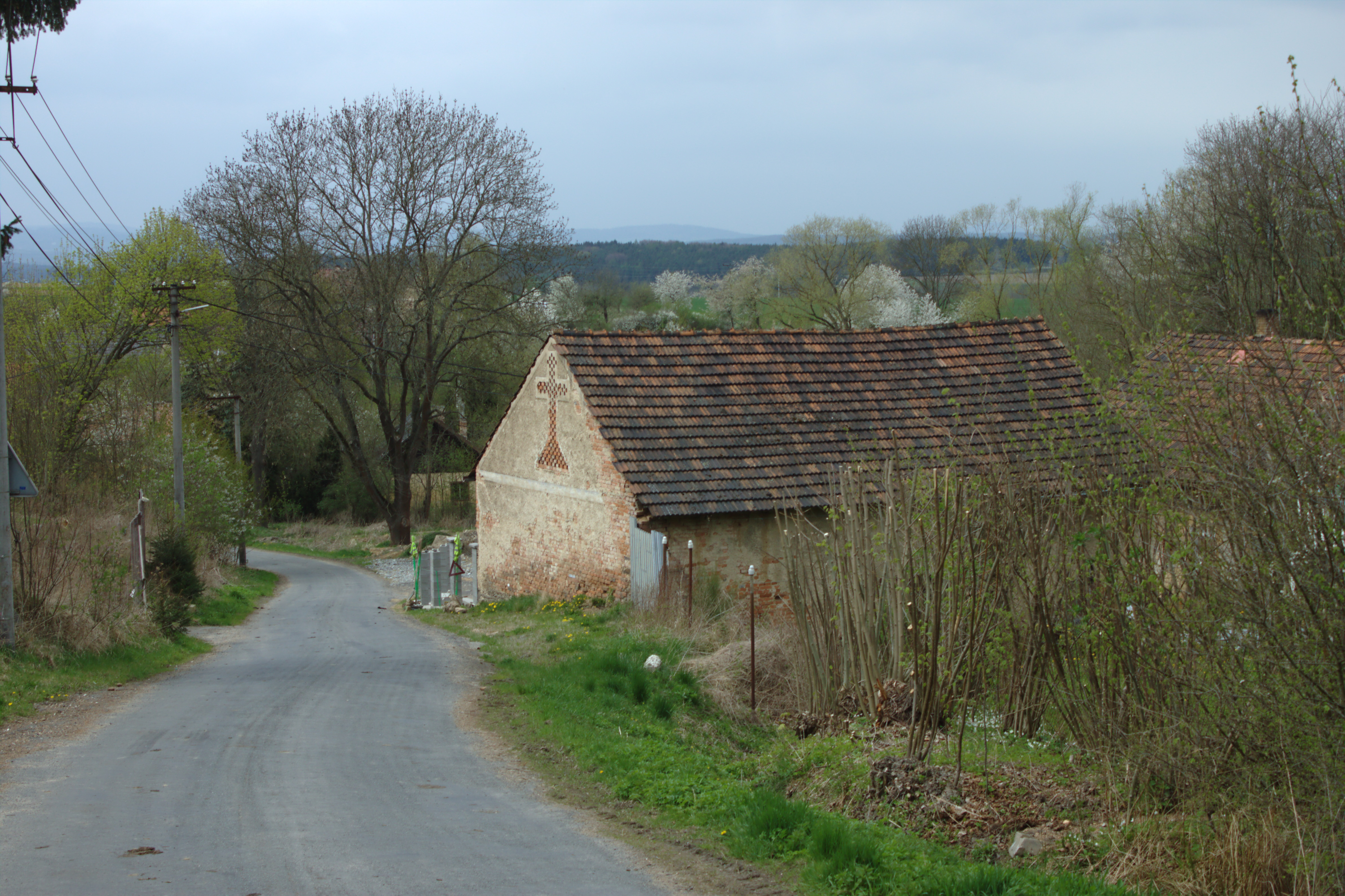 A barn next to the main road in the village of Jeníkovice, Plzeň Region, CZ